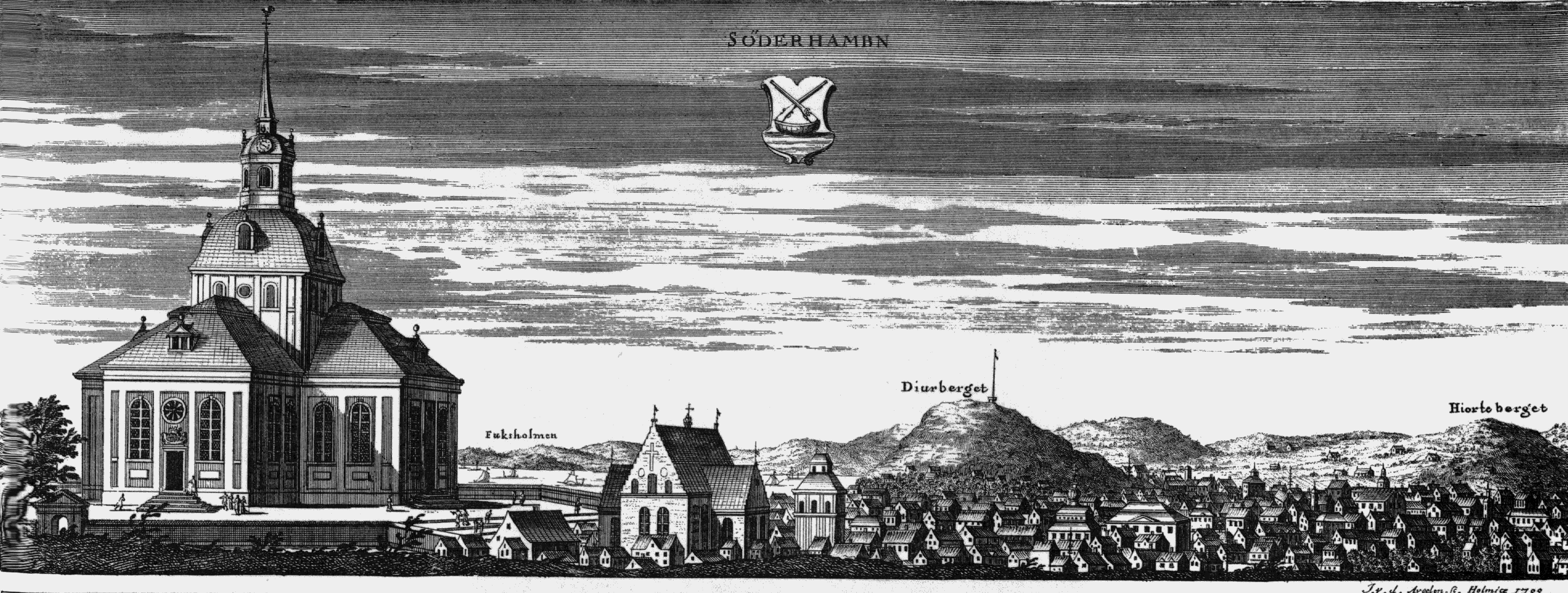 The city SÖderhamn in Sweden